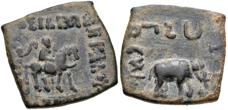 Aziles Indian standard with elephant